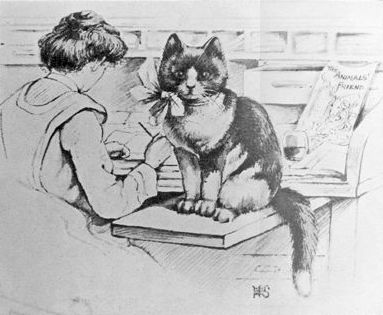 The Animals Friend Cat Book mentions the office cat Tibby and he is depicted in an illustration alongside a writer/illustrator who is potentially Jessey Wade.